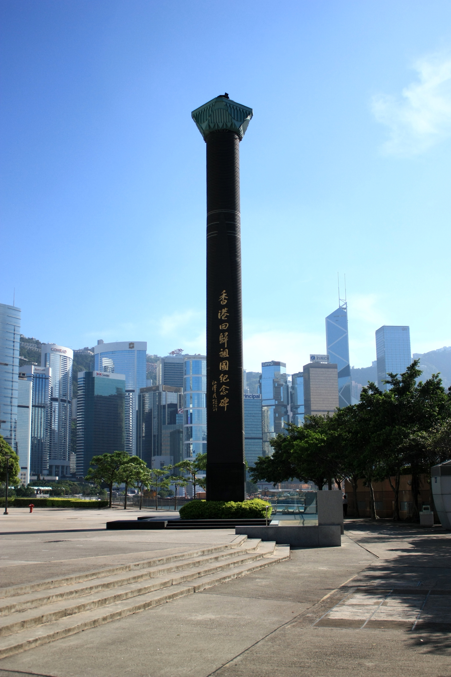 The Monument in Commemoration of the Return of Hong Kong to China 香港回歸祖國紀念碑